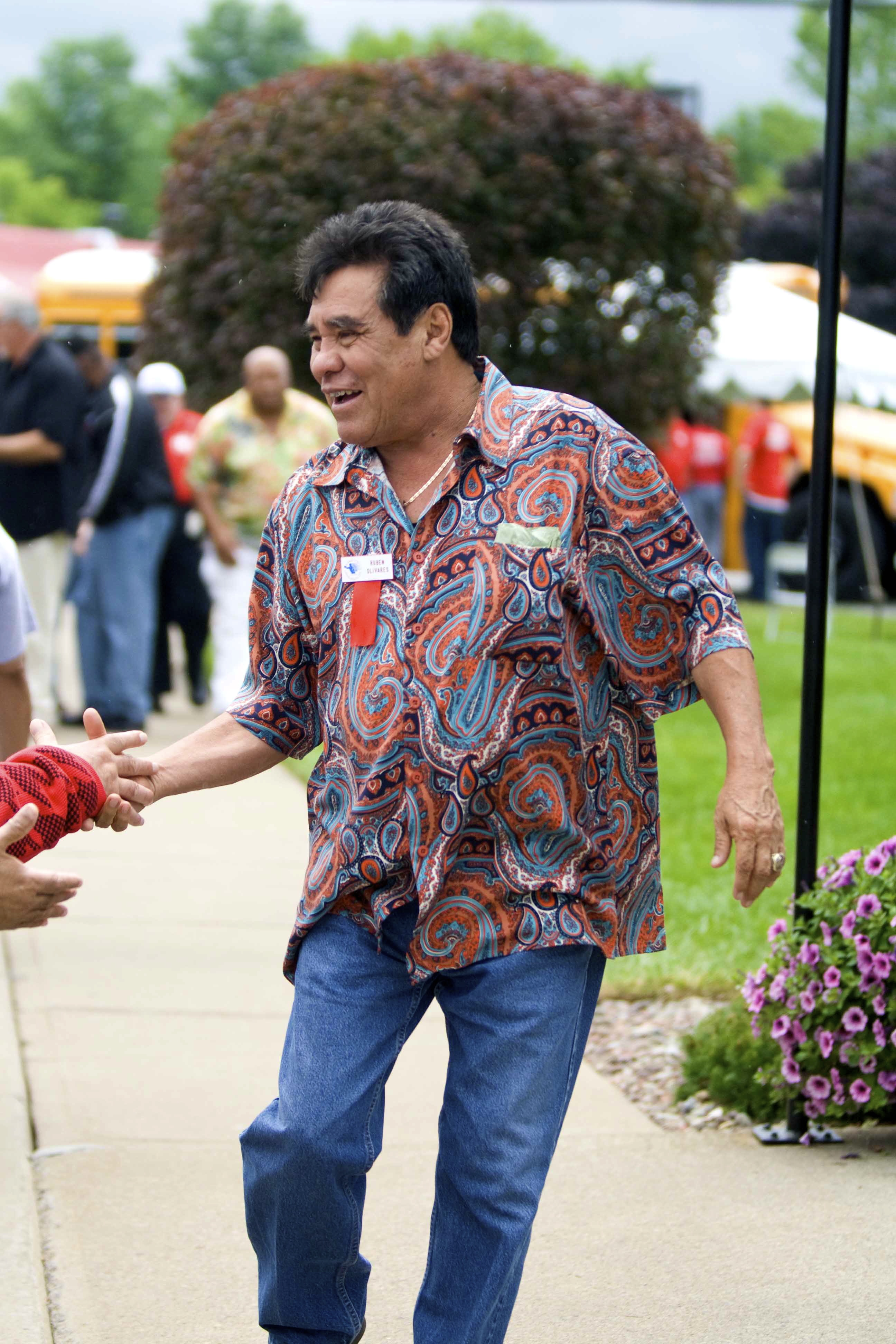 All Time Great Mexican World Champion Rubén Olivares at the 2010 Boxing Hall of Fame Induction in Canastota, New York.